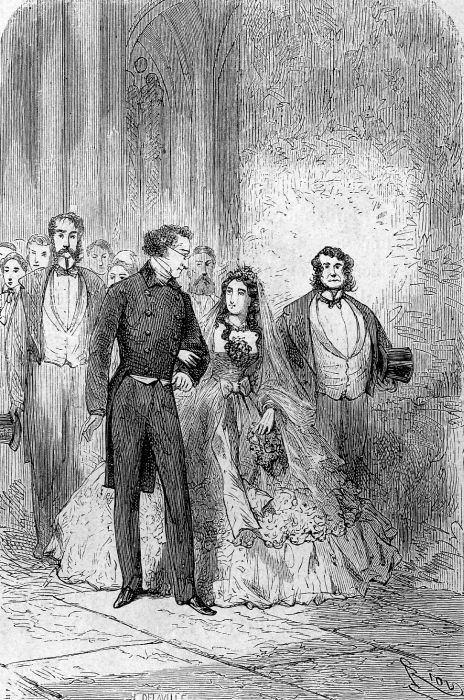 An ilustration from the novel "In Search of the Castaways; or Captain Grant's Children" by Jules Verne drawn by Édouard Riou.